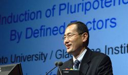 Shinya Yamanaka giving a lecture at NIH